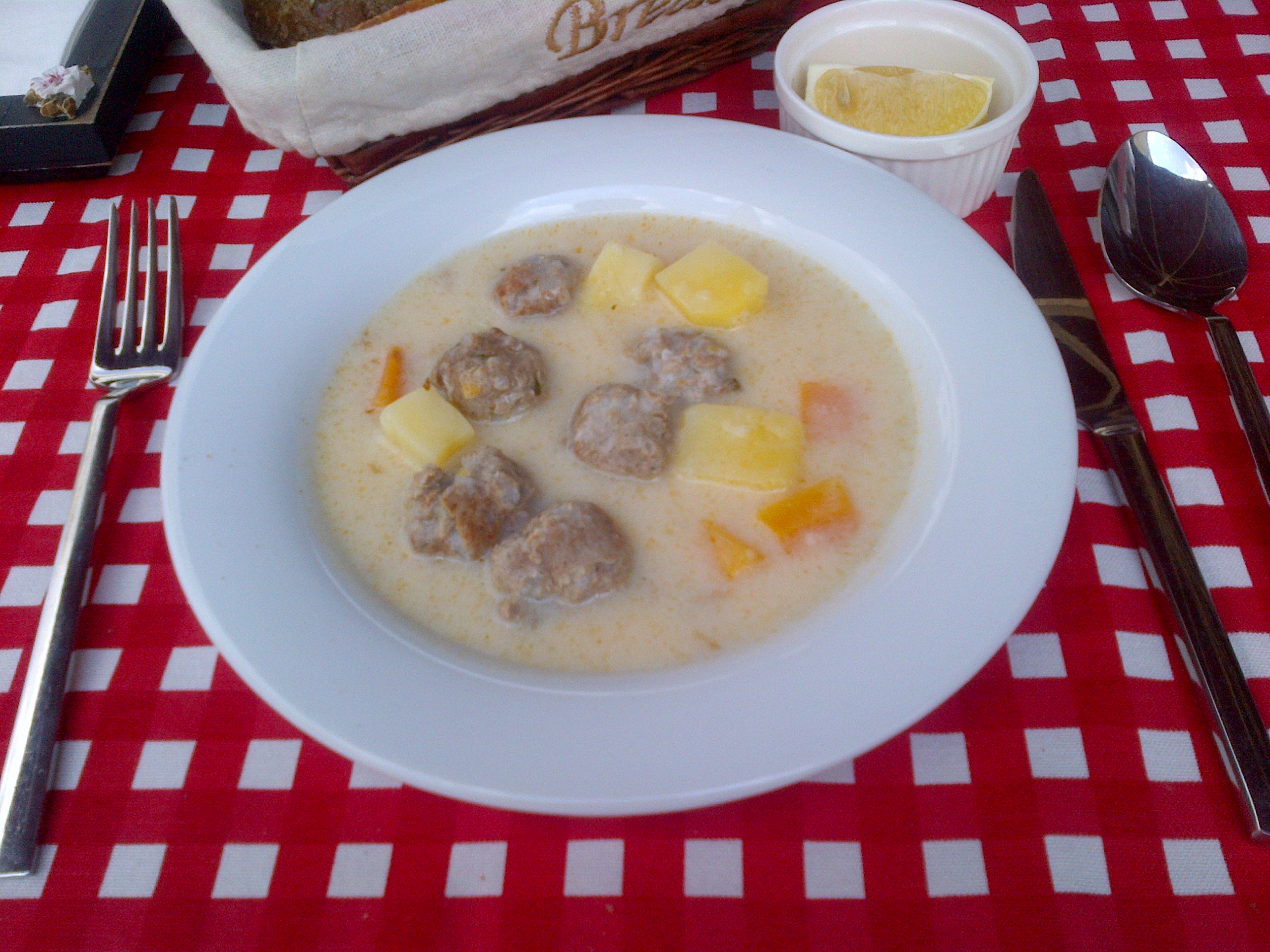 Ekşili köfte is version of "sulu köfte", also from the Turkish cuisine. The main difference between the two is that ekşili (sour) version has an integrated sauce (called "terbiye" in Turkish) consisting of egg yolk and lemon juice.